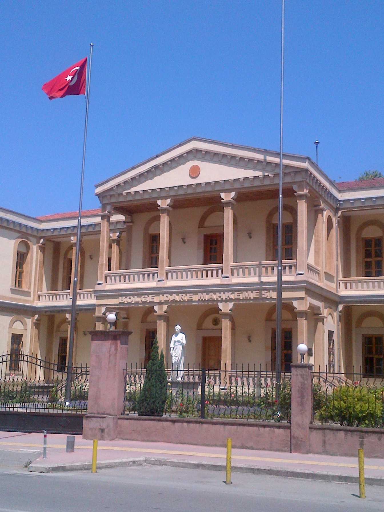 Historical building of the Governor's House ("Vali konağı") of Samsun in Turkey.